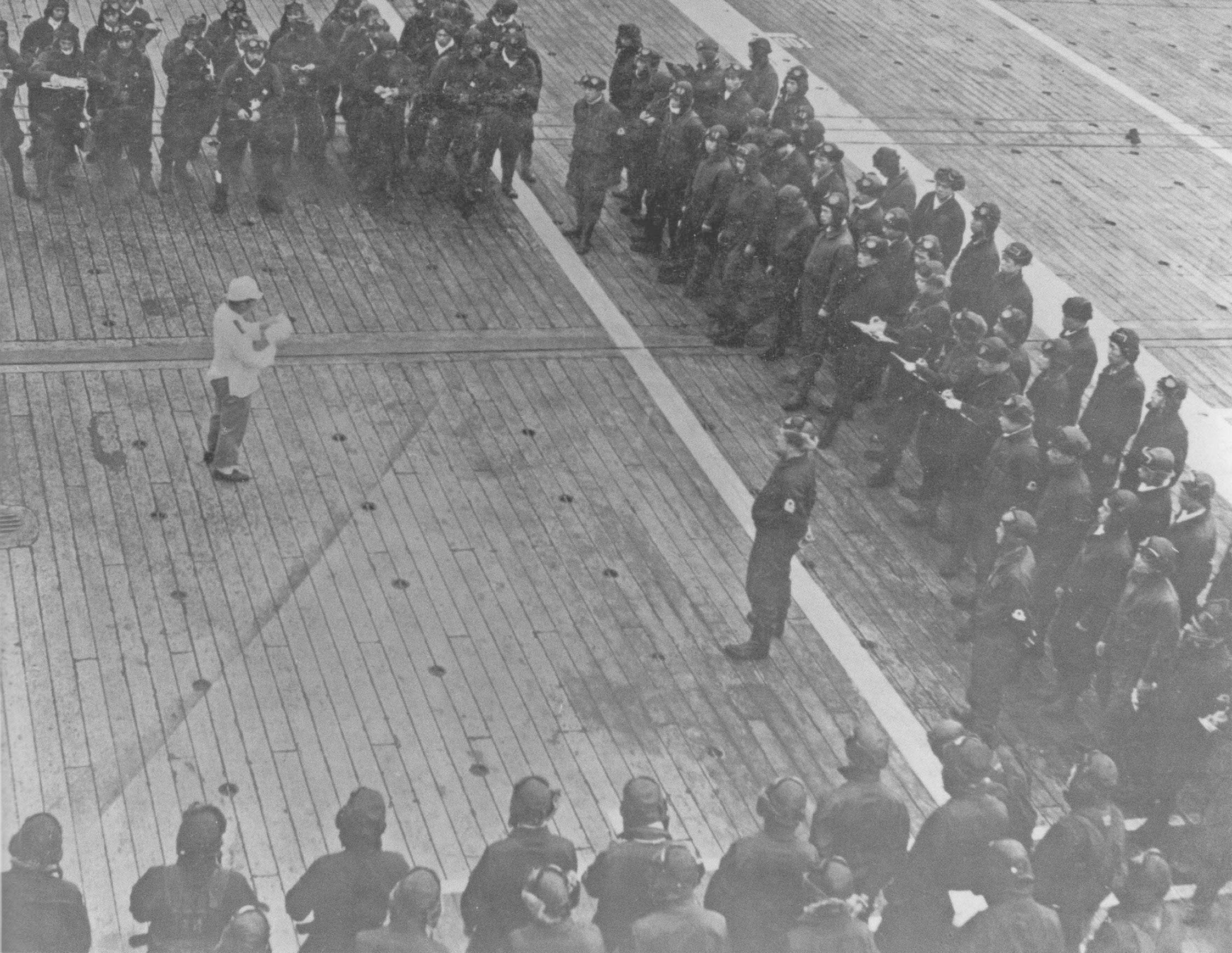 Aircrew from the Imperial Japanese Navy aircraft carrier Zuikaku are briefed on the carrier's flight deck sometime in early 1942.